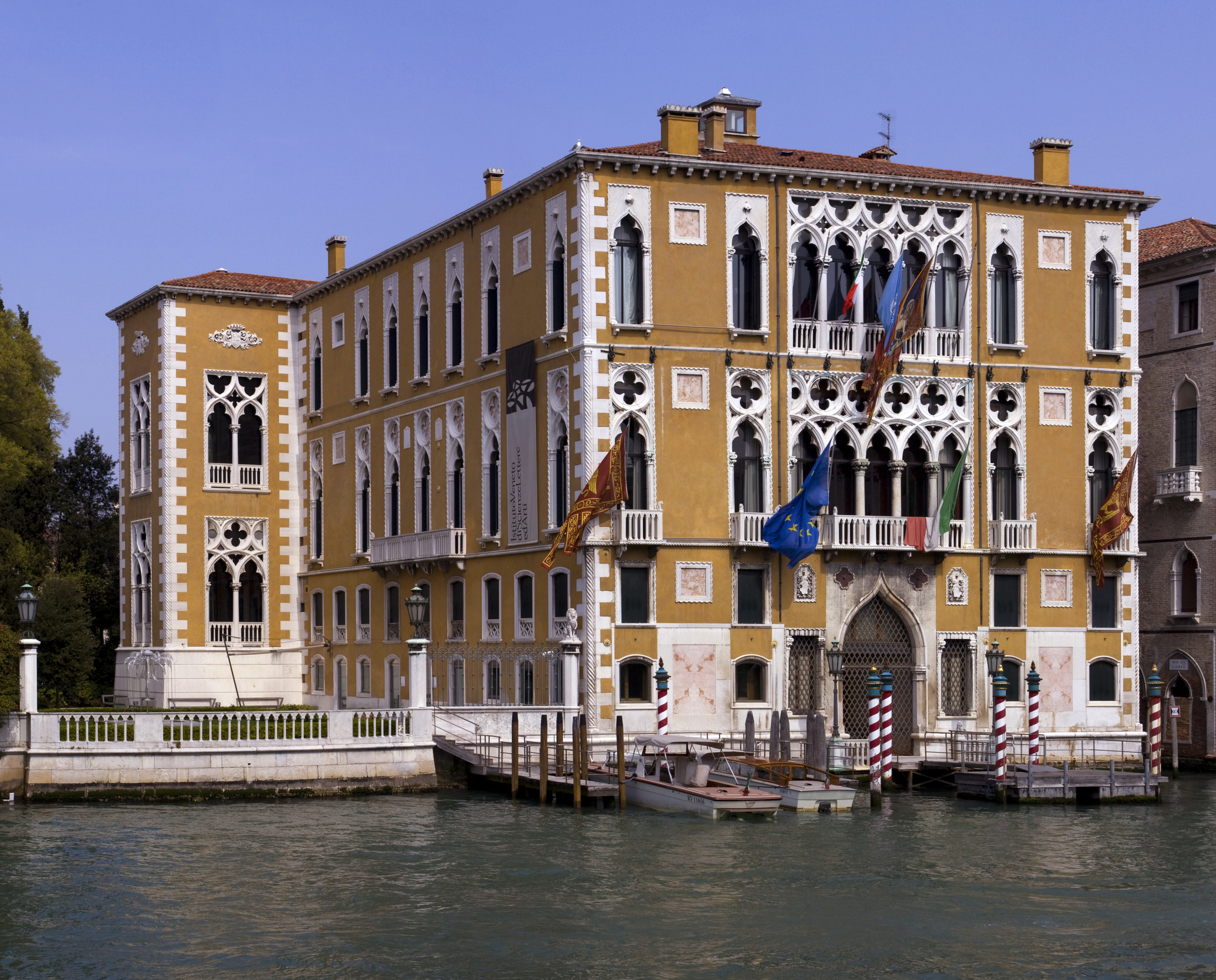 The Palazzo Cavalli-Franchetti in Venice, Italy alongside the Grand Canal.